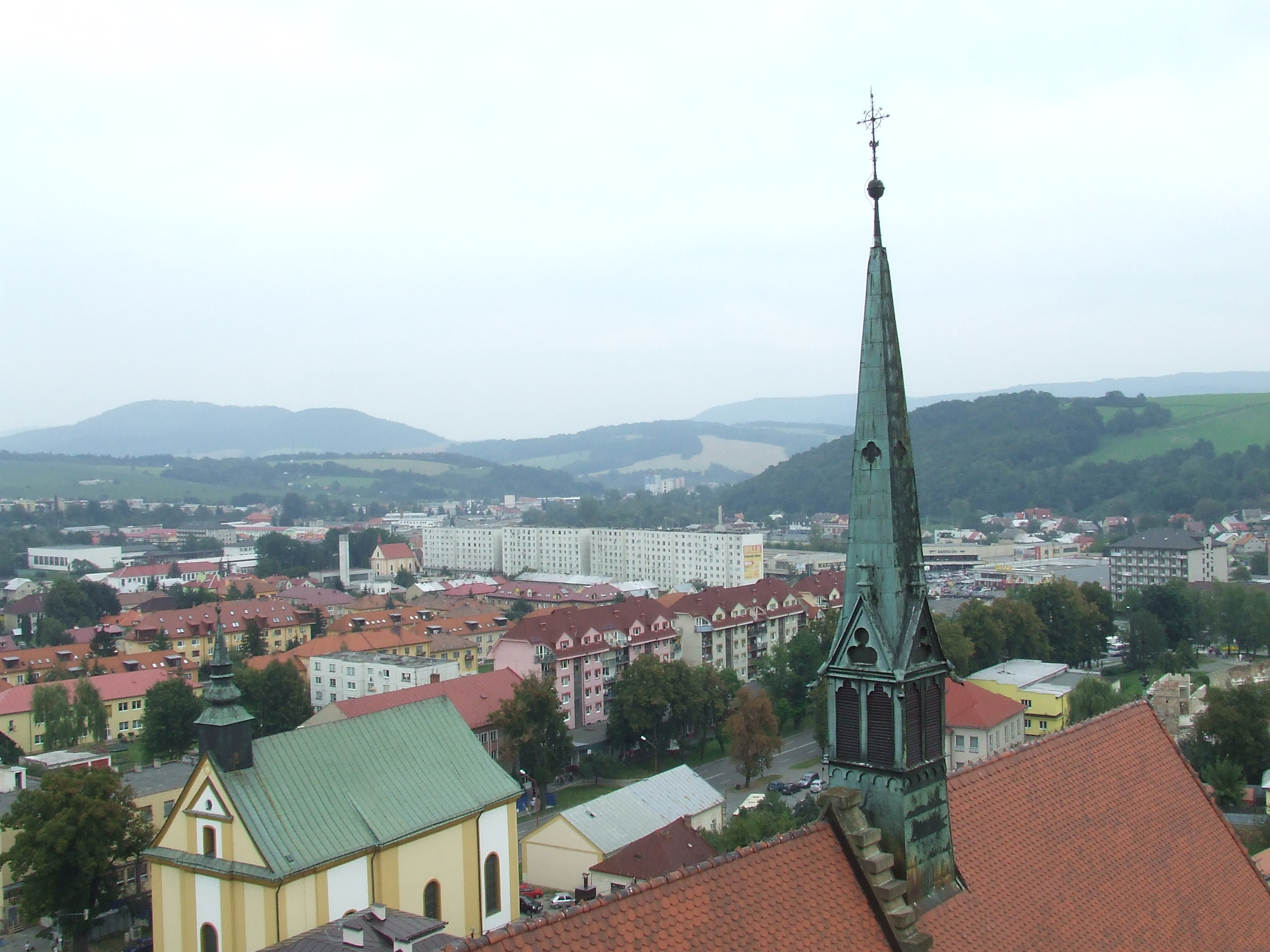 The city of Bardejov.